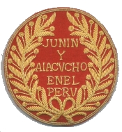 Escudo honorifico por la campaña de Perú de 1823-24 Condecoration patch for the Peruvian Campaing 1823-1824